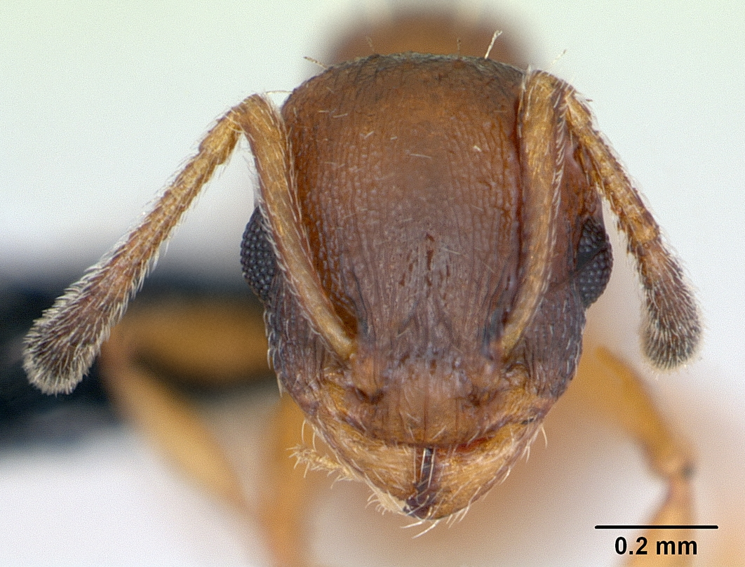 Head view of ant Temnothorax unifasciatus specimen casent0173188.